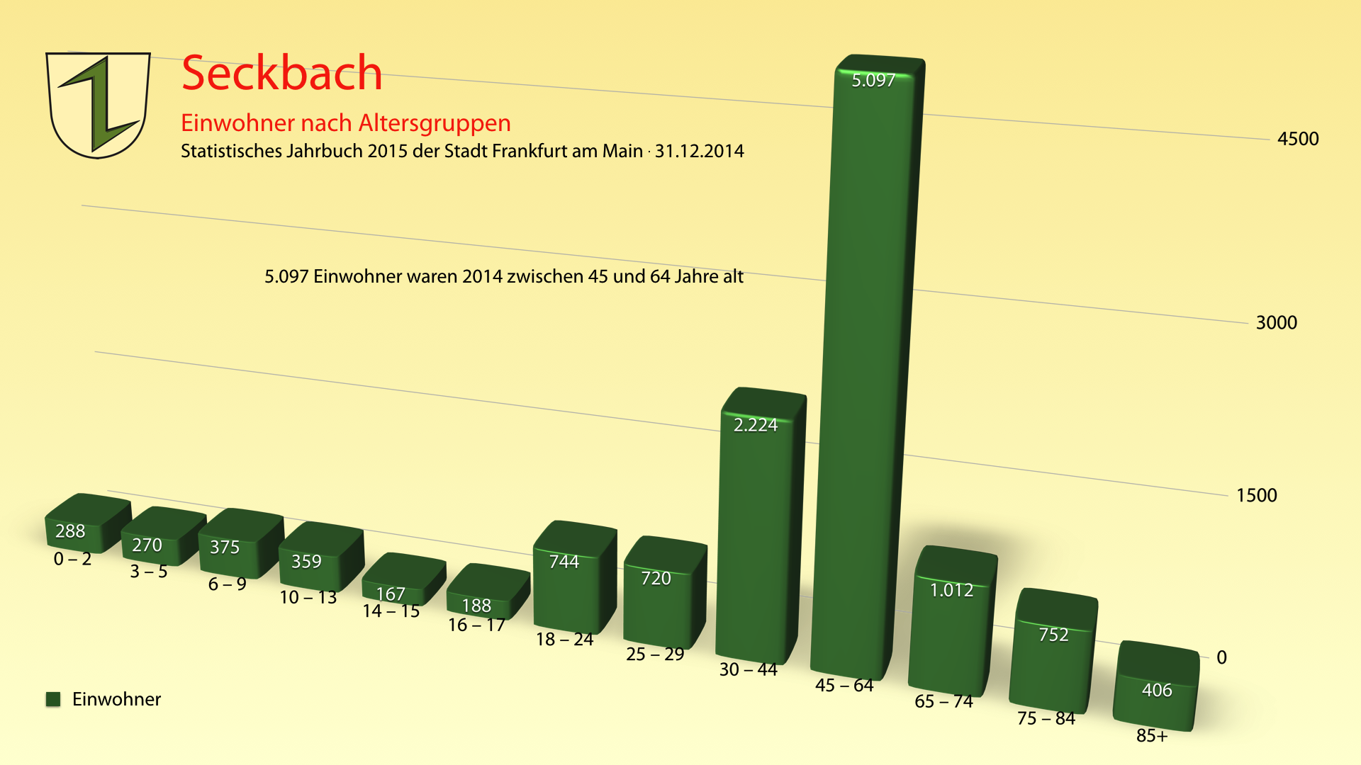 Inhabitants per age group of Seckbach, Frankfurt, Hesse, Germany